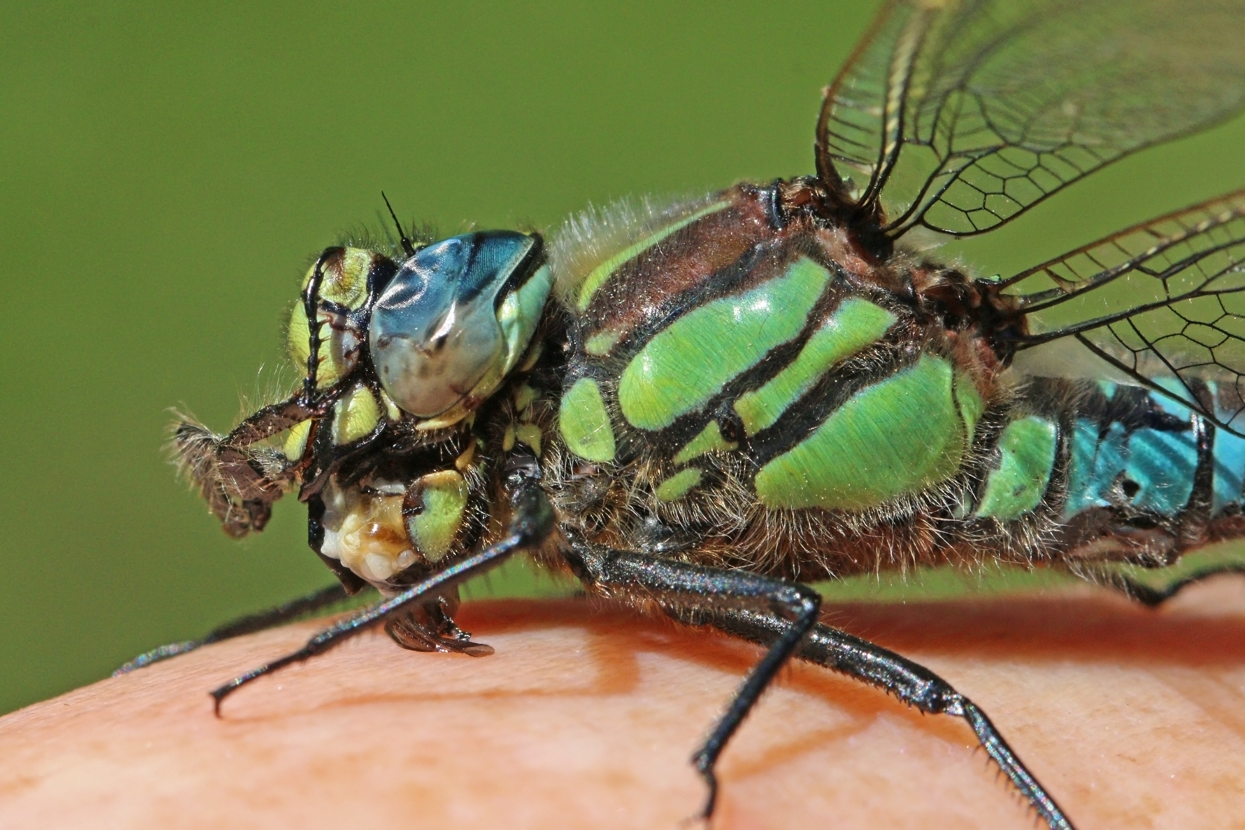 Hairy dragonfly (Brachytron pratense) male eating a bee, Koigi Bog, Saaremaa, Estonia